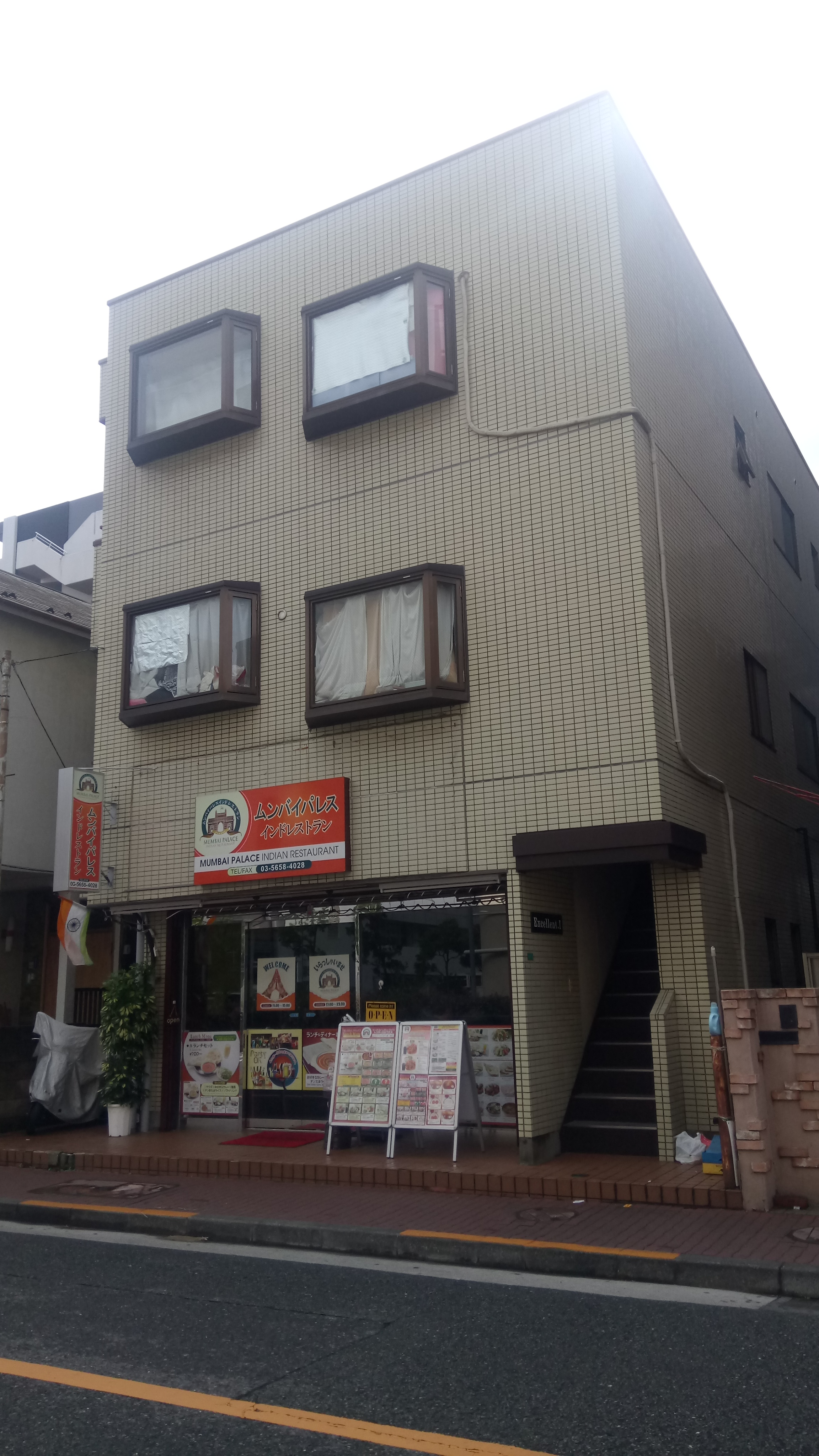 Mumbai Palace Indian Restaurant